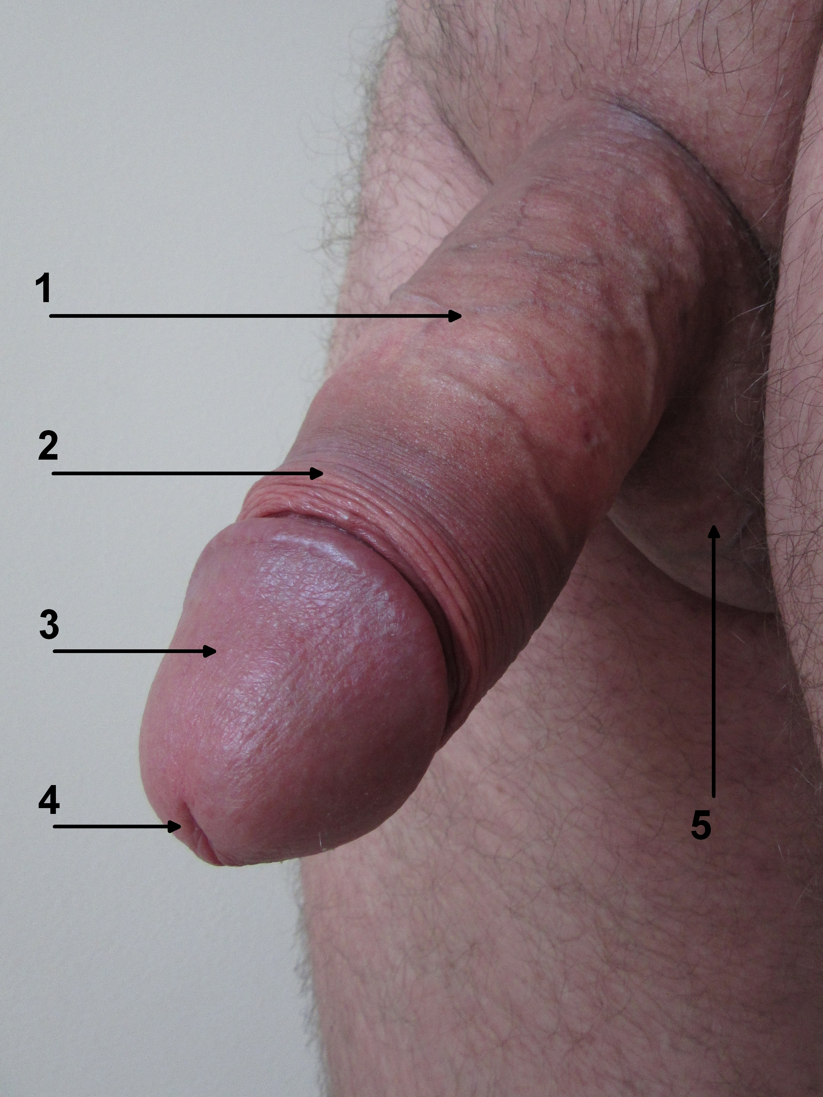 Labeled external male genitalia